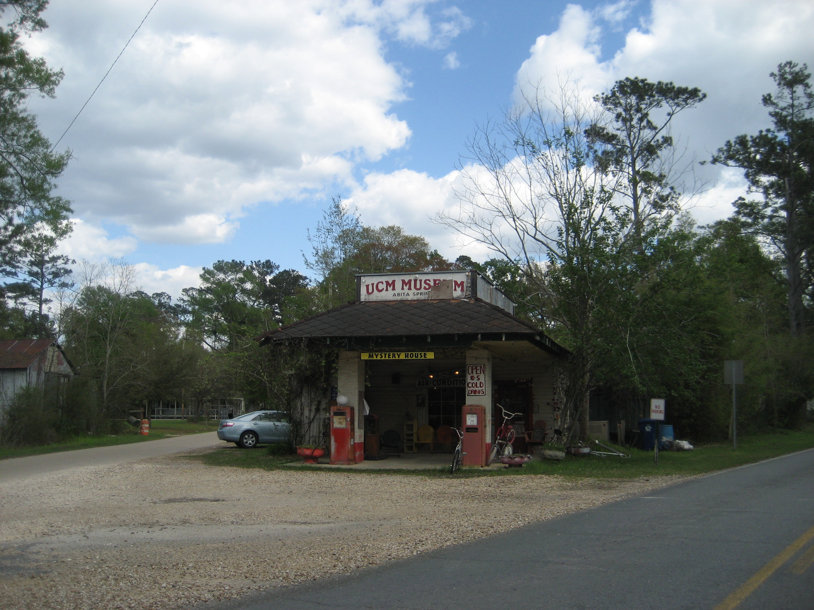 Abita Springs, Louisiana. The "UCM Museum" is housed in an old gas station building.